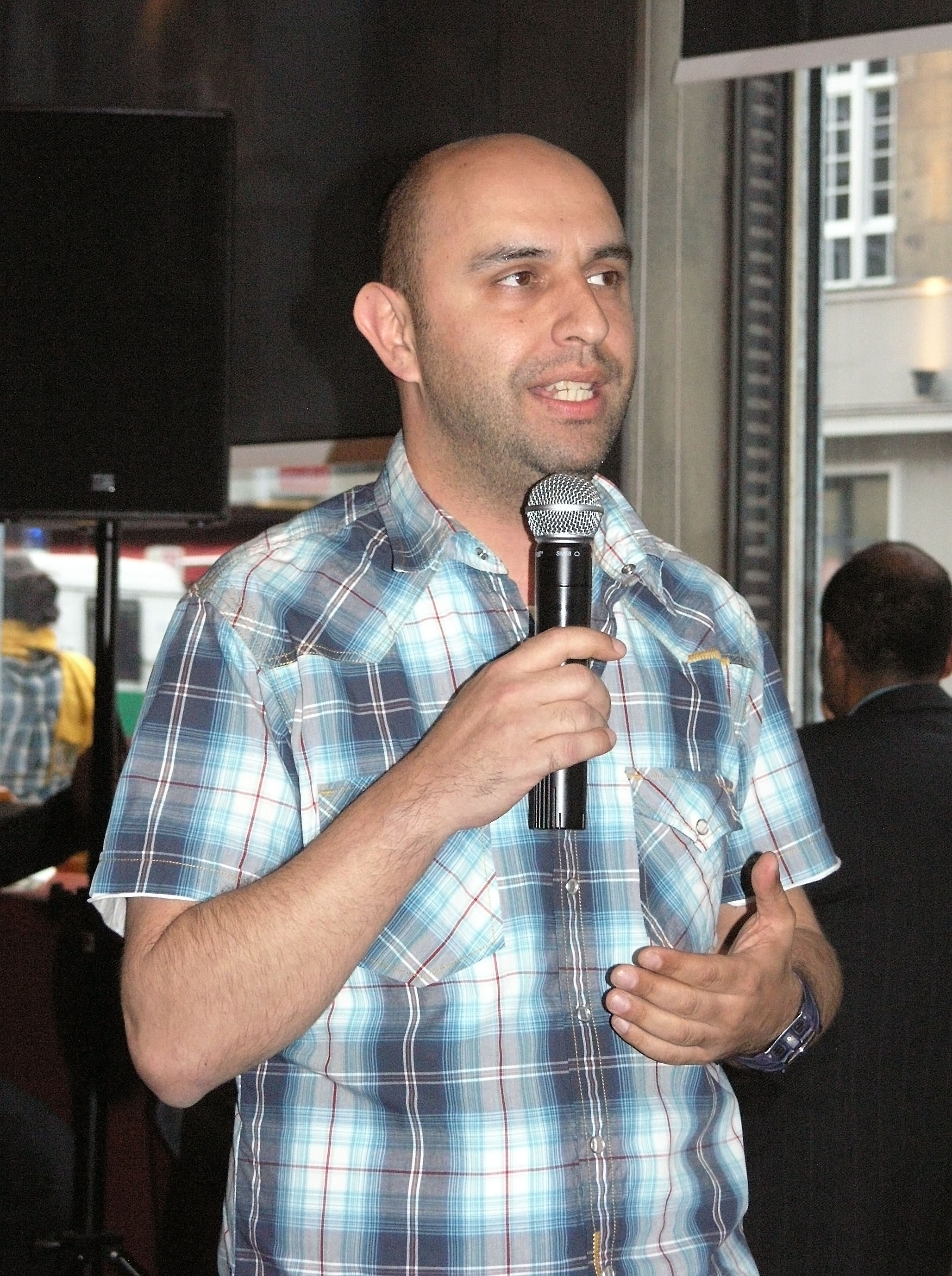 Serdar Somuncu presenting his show „Bild Lesen“ – Serdar Somuncu liest und kommentiert die Bild-Zeitung ("Reading Bild" – Serdar Somuncu reads and comments the newspaper Bild).